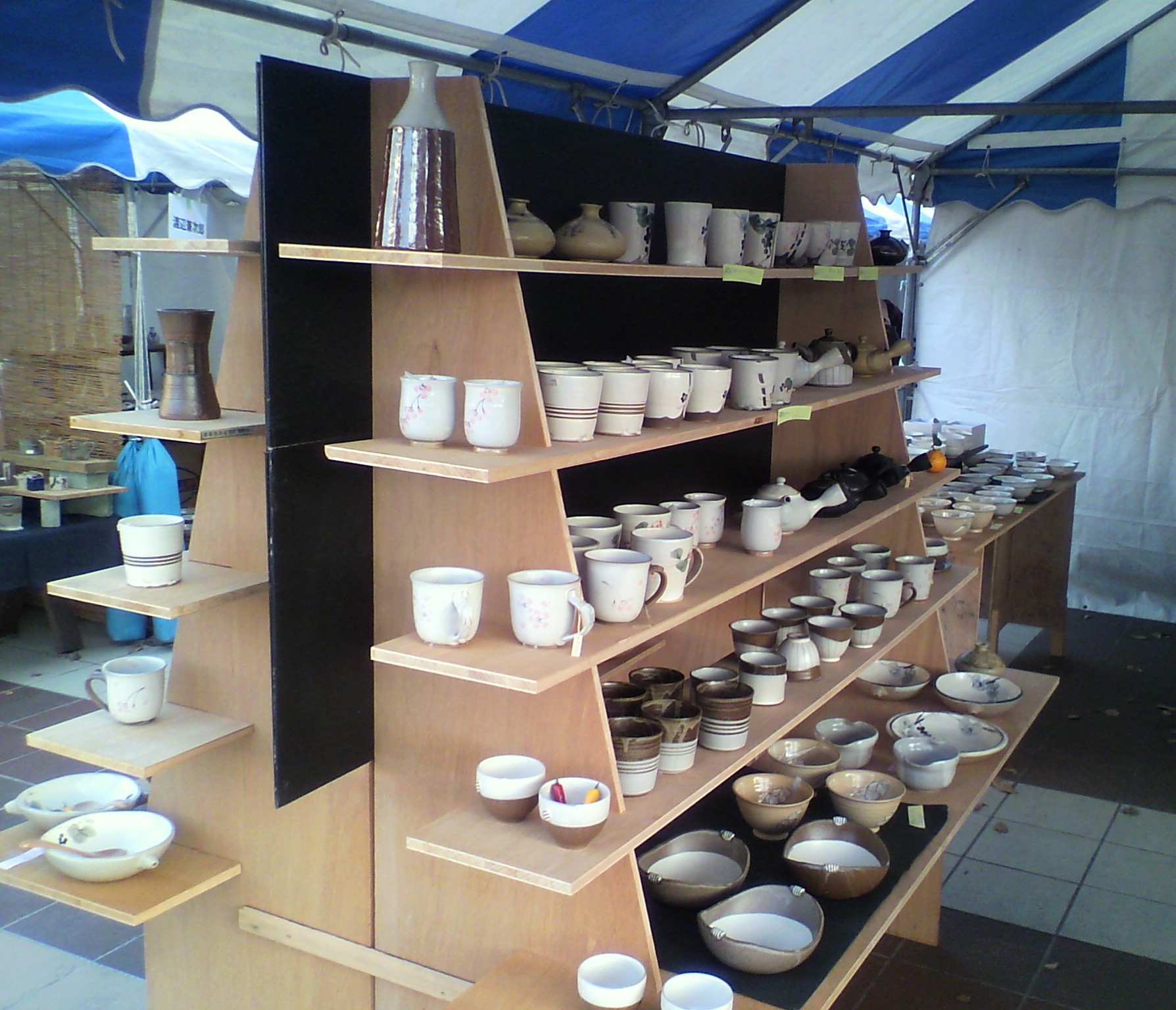 This is one scene of Kasamayaki market in Tsukuba, Ibaraki, Japan.